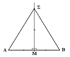 Altitude of triangle